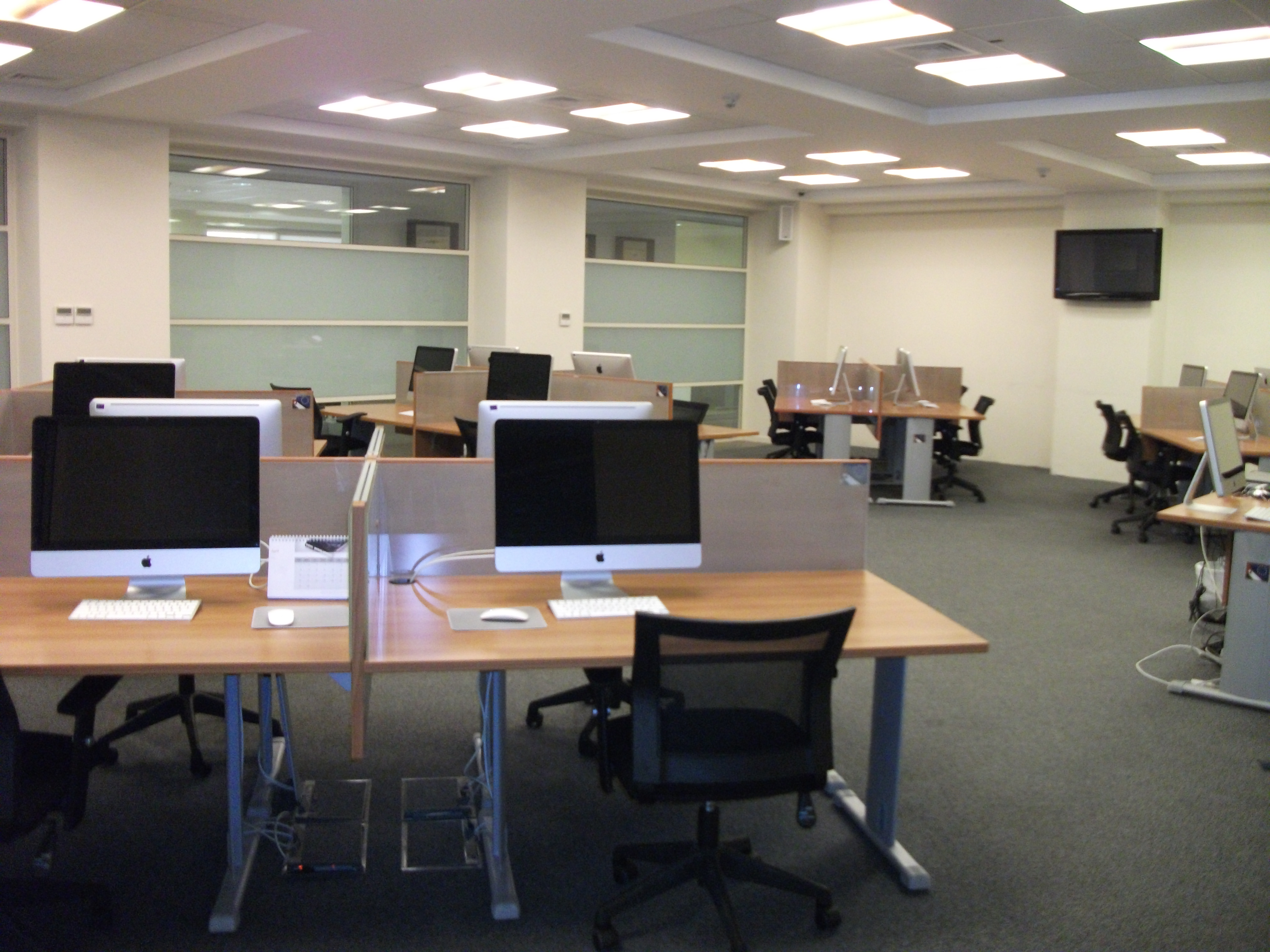 Newsroom